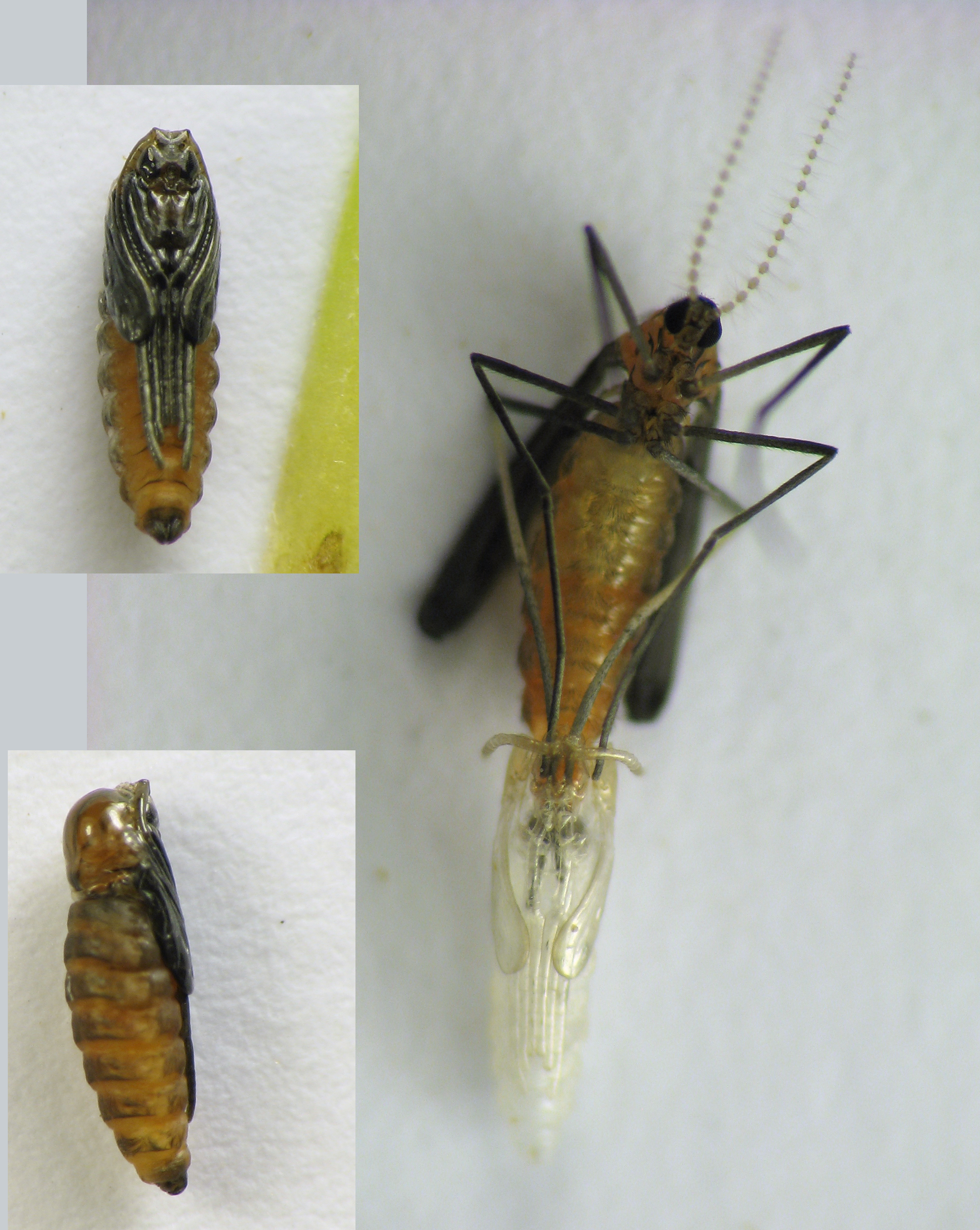 An adult male Rhopalomyia solidaginis midge emerging from its pupa. Rancocas Nature Center NJAS, Burlington County, New Jersey, USA.